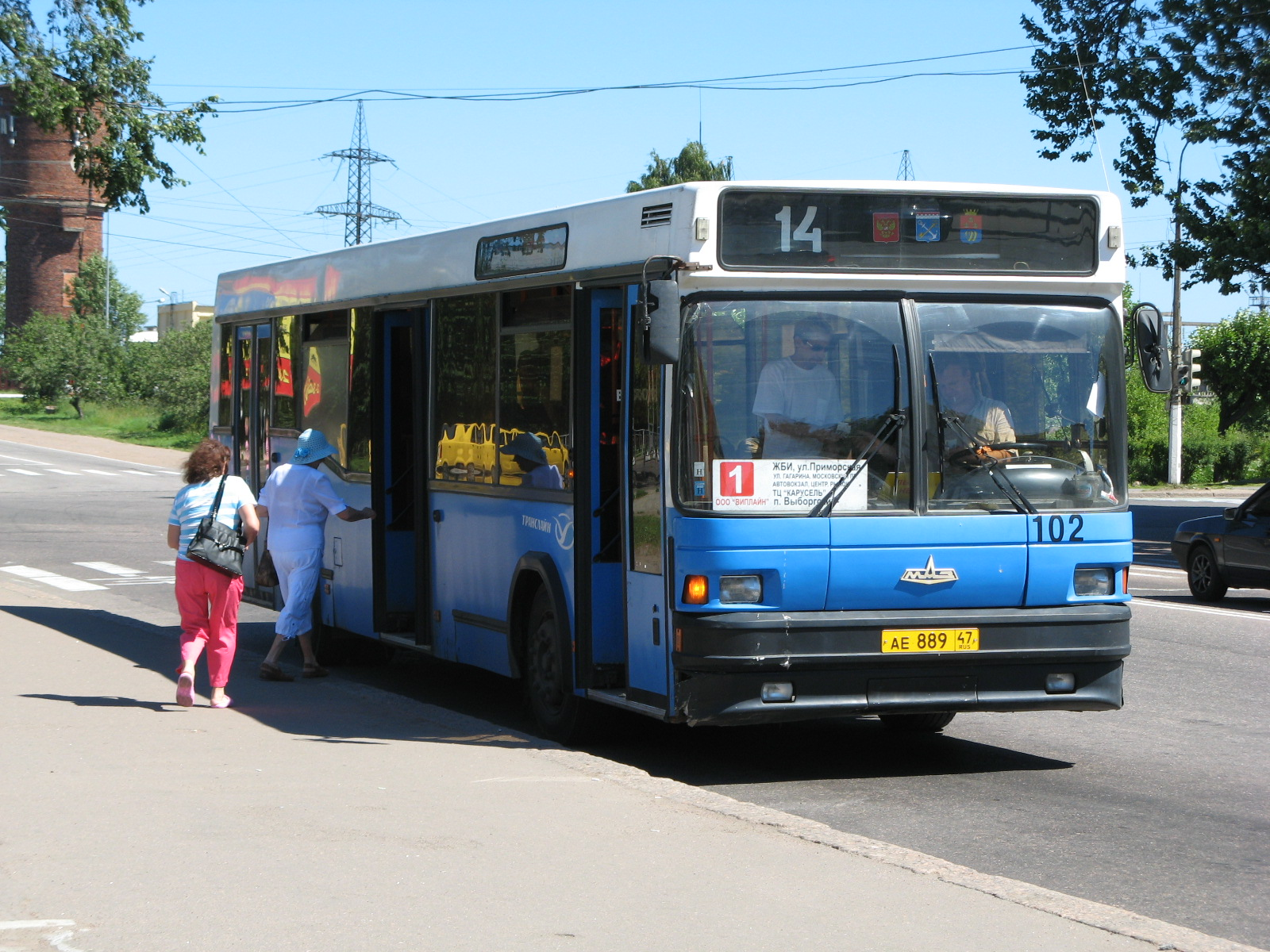 Bus of 1-st route in Vyborg, Russia.